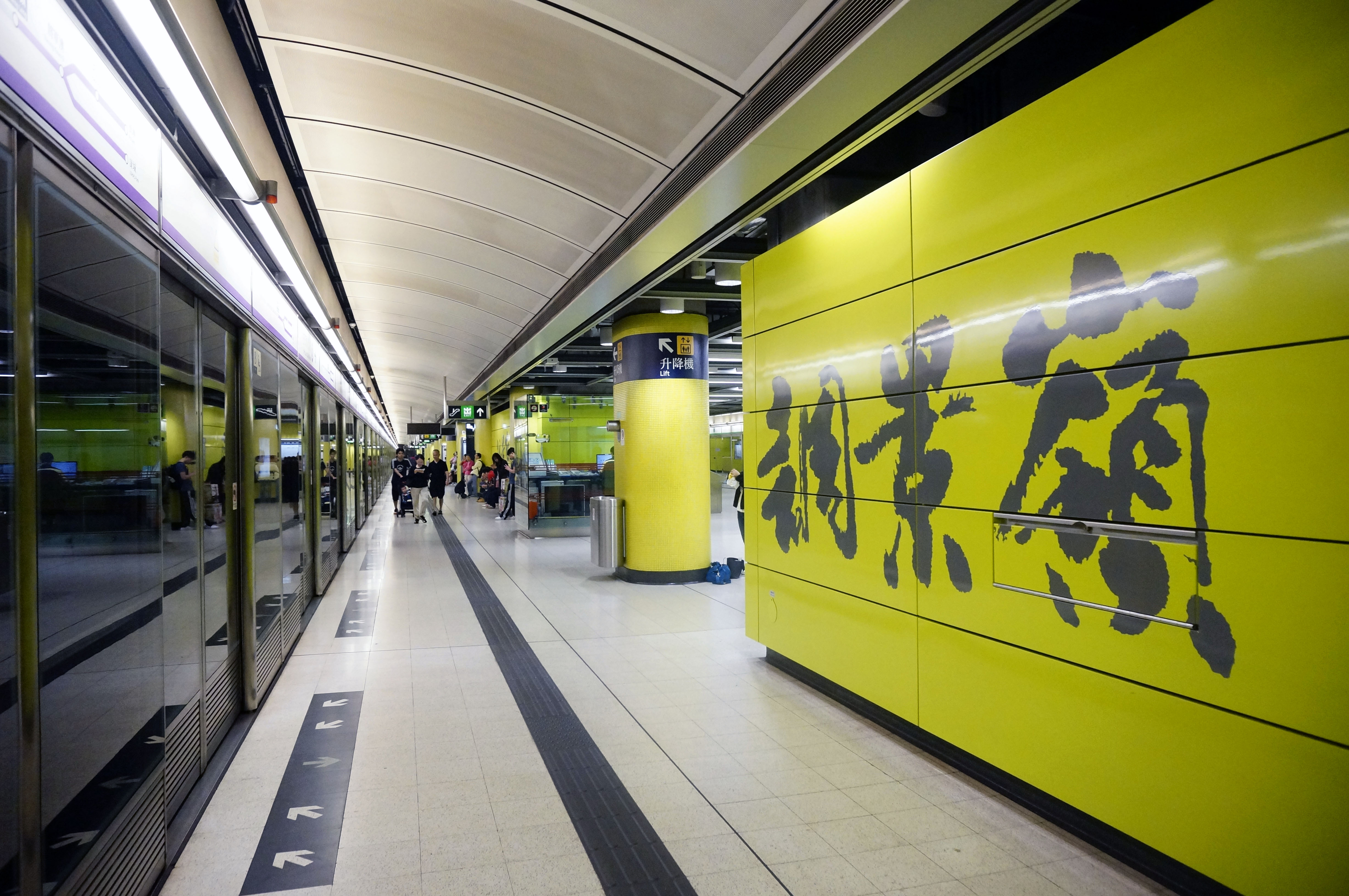 MTR Tiu Keng Leng station Platform 3